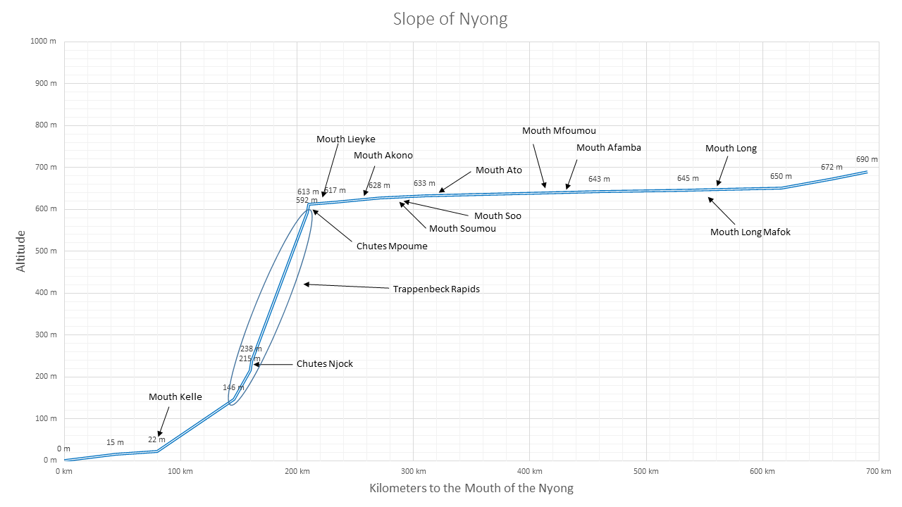 Slope of Nyong River; Data source * J. C. Olivry, Fleuves et rivières du Cameroun, collection « Monographies hydrologiques », no 9, ORSTOM, Paris, 1986